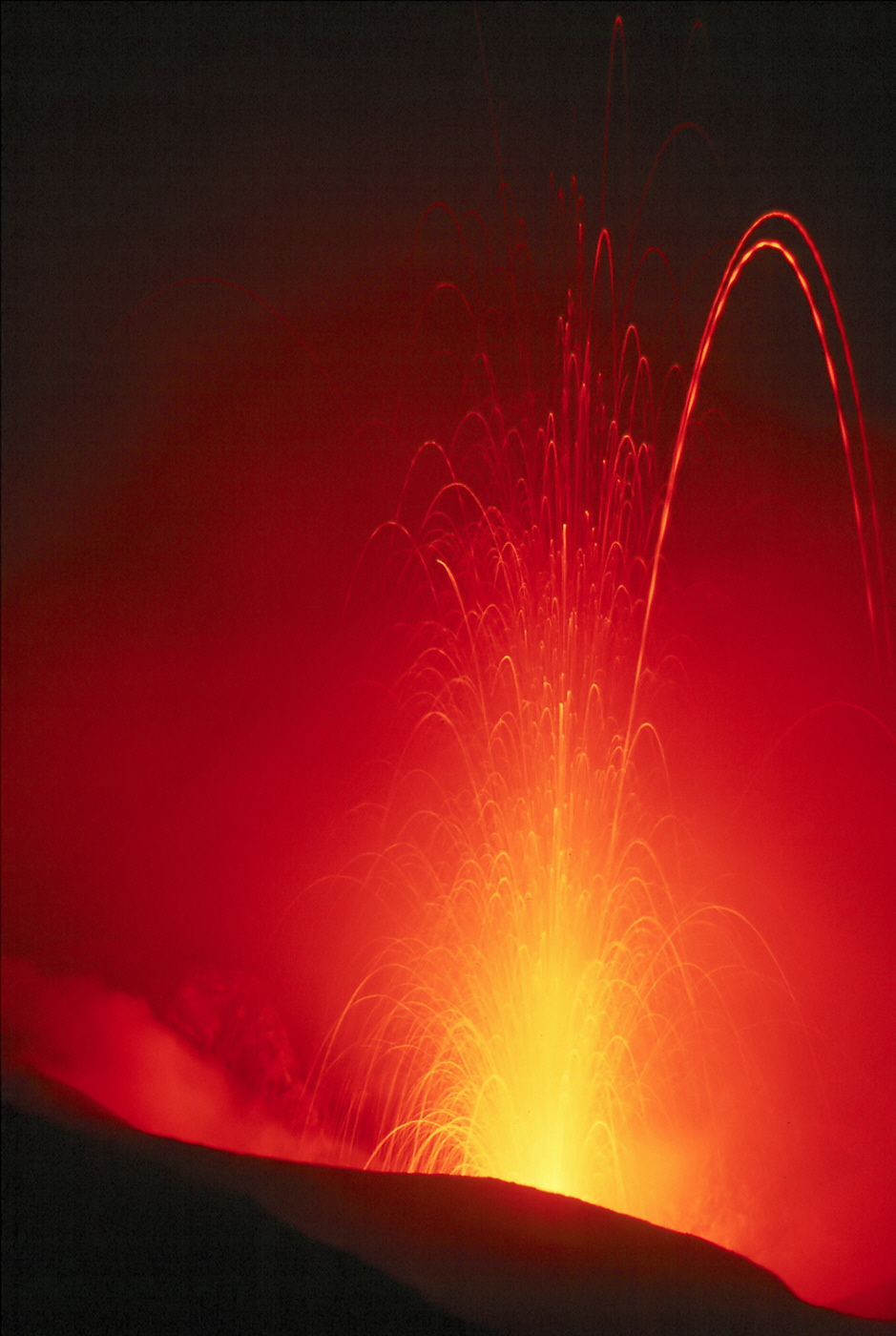 Eruption of Stromboli (Isole Eolie/Italia), ca. 100m (300ft) vertically. Exposure of several seconds. The dashed trajectories are the result of lava pieces with a bright hot side and a cool dark side rotating in mid-air.